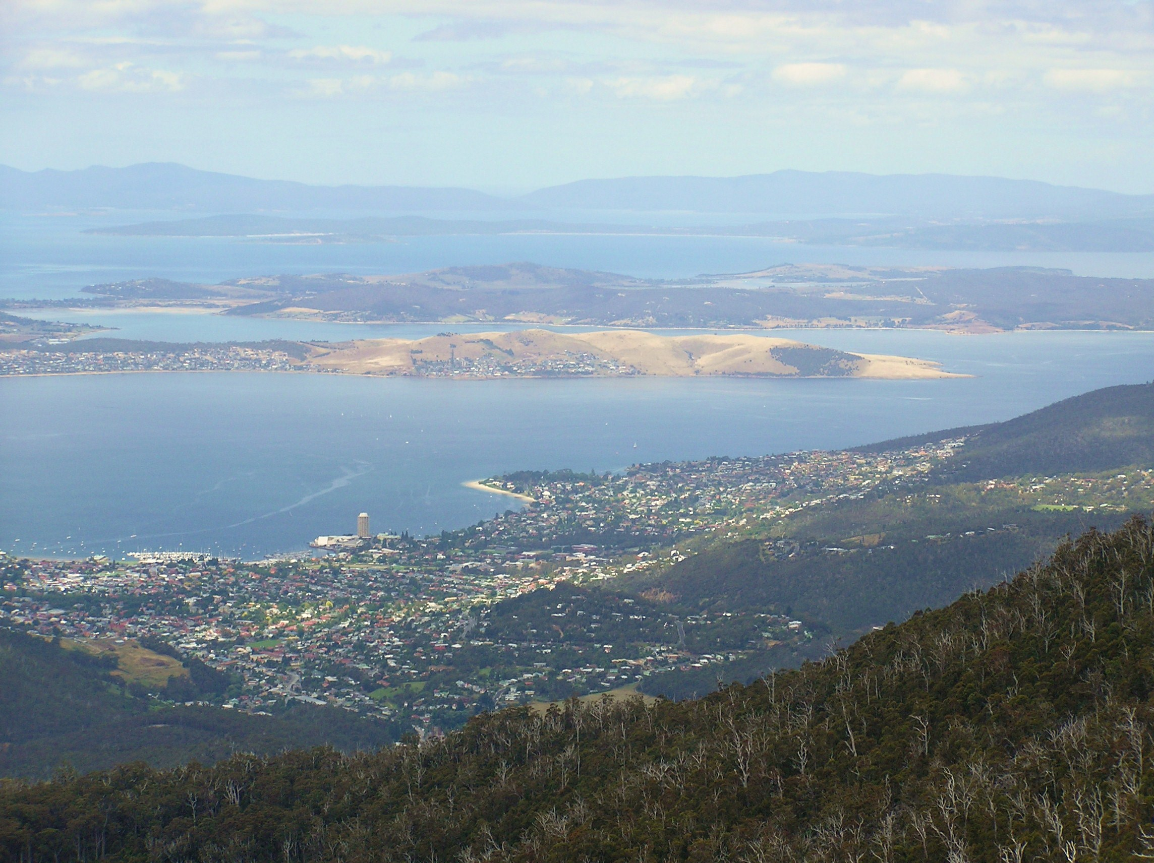 Sandy Bay, Dynnyrne, South Hobart suburbs of Hobart Tasmania viewd from Lost World near Mount Wellington